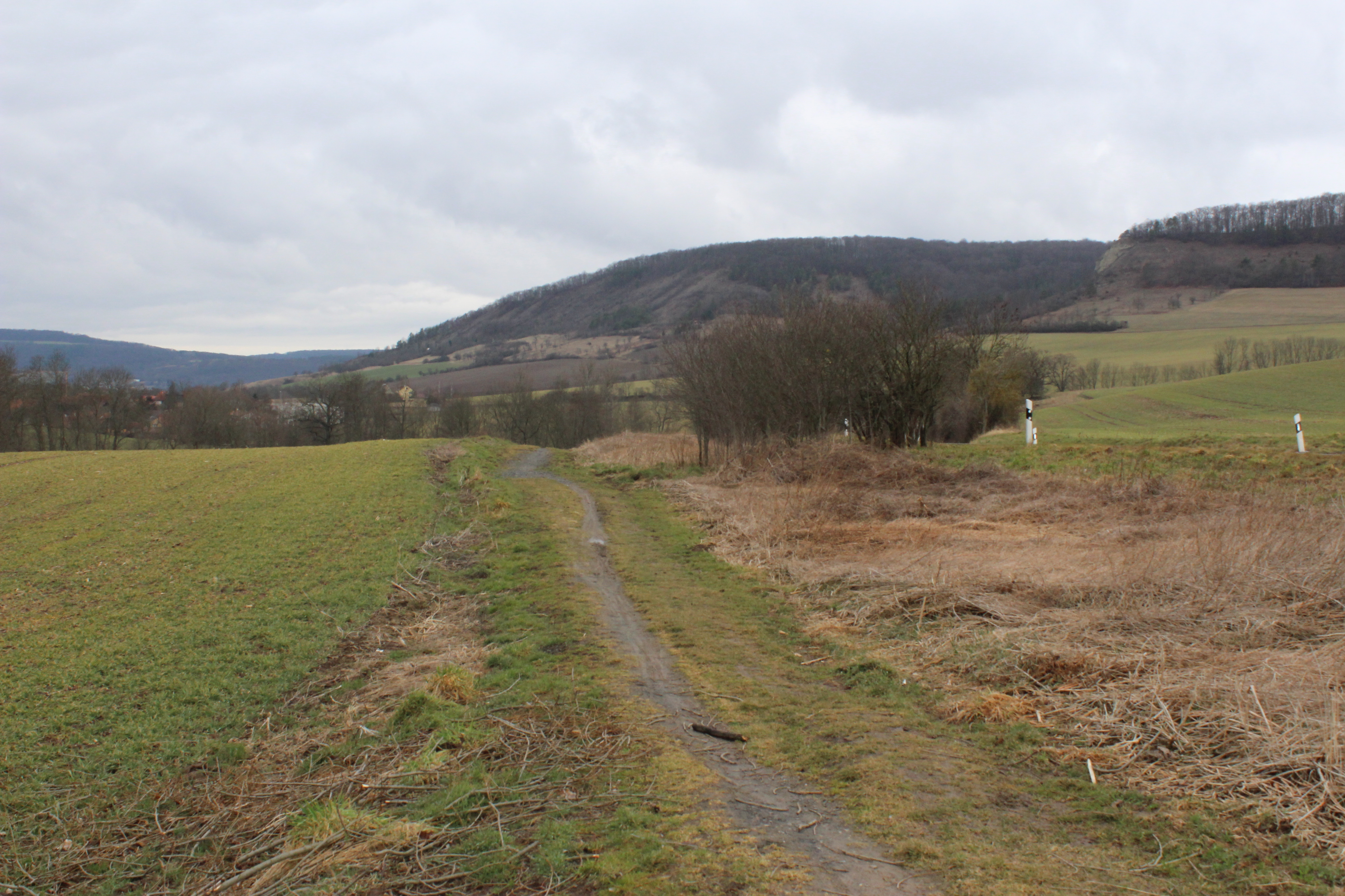 railway line Porstendorf-Crossen between Beutnitz and Löberschütz